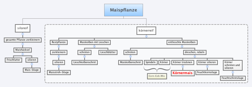 Products made from a maize plant